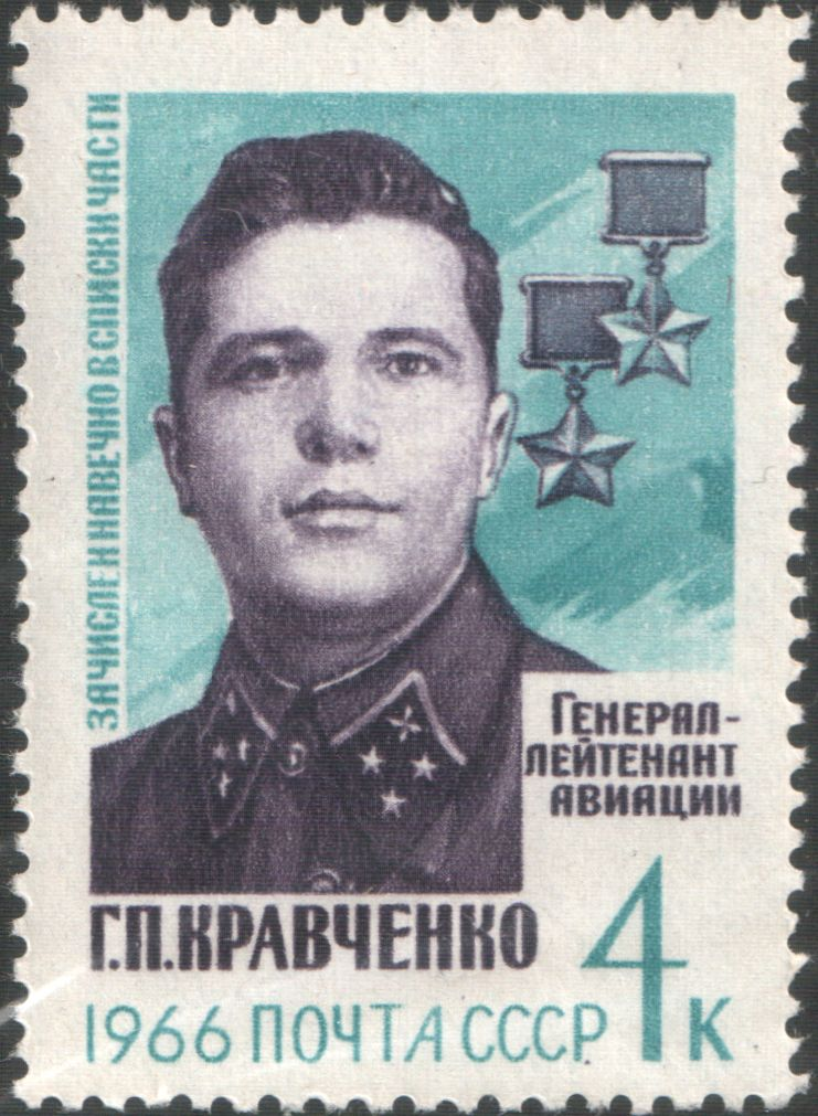 Kravchenko Grigorii Panteleevich - USSR, 1966